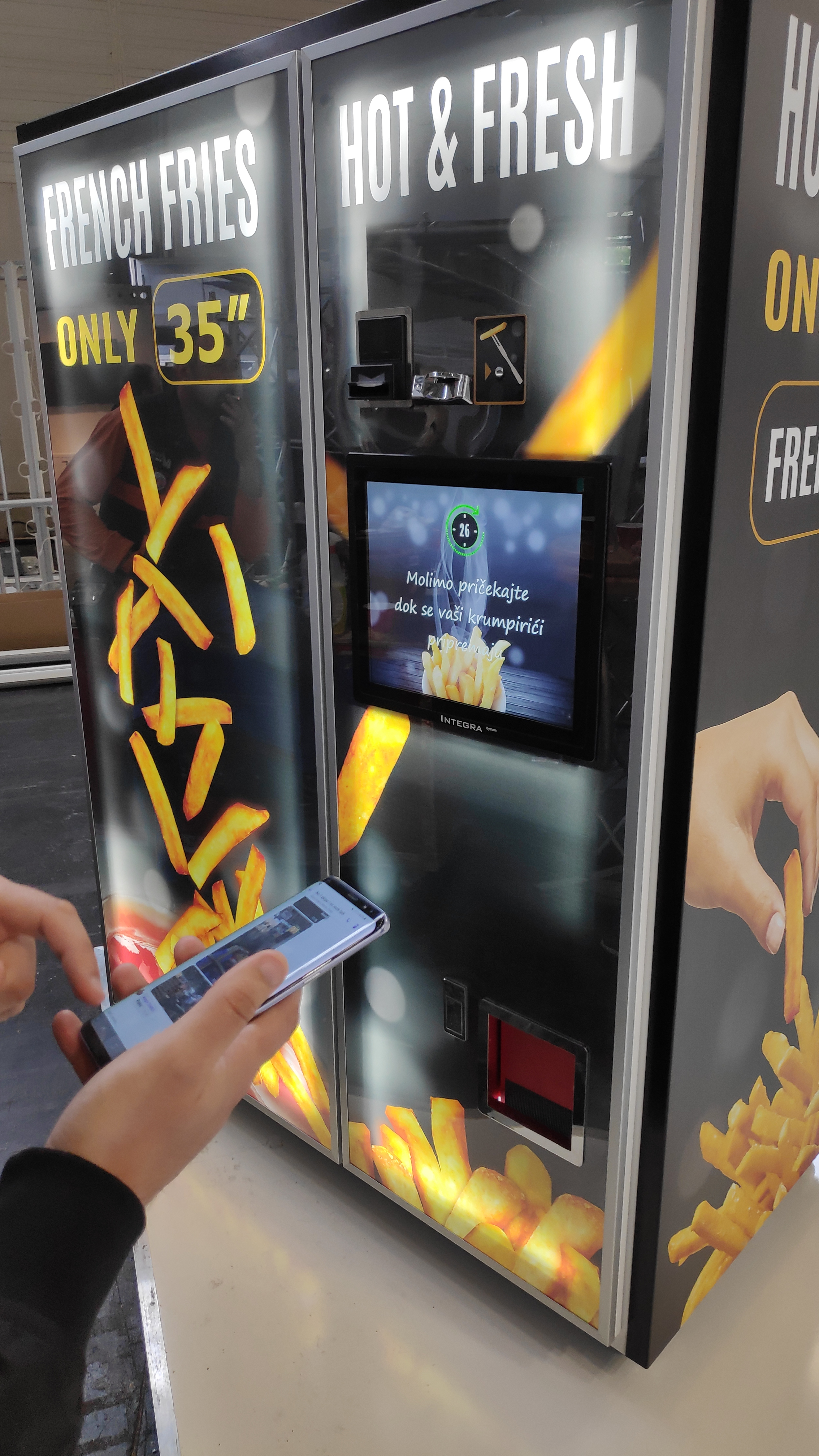 Integra Saratoga French fry machine at Köln, Germany, at exibition Eu'Vend and coffeena 2019